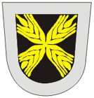 Coat of arms of Paide Parish, Järva County, Estonia.